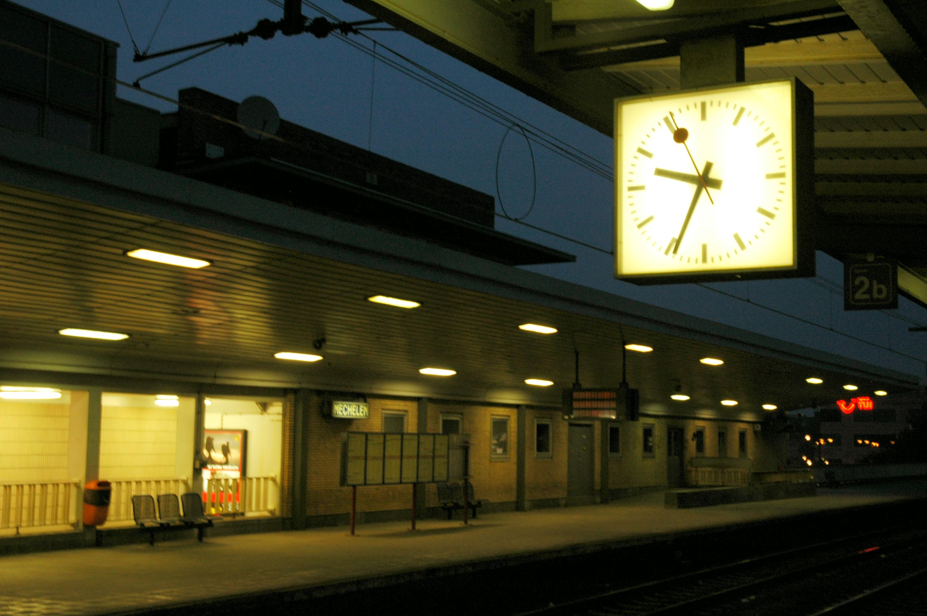 Stationsklok NMBS te Mechelen